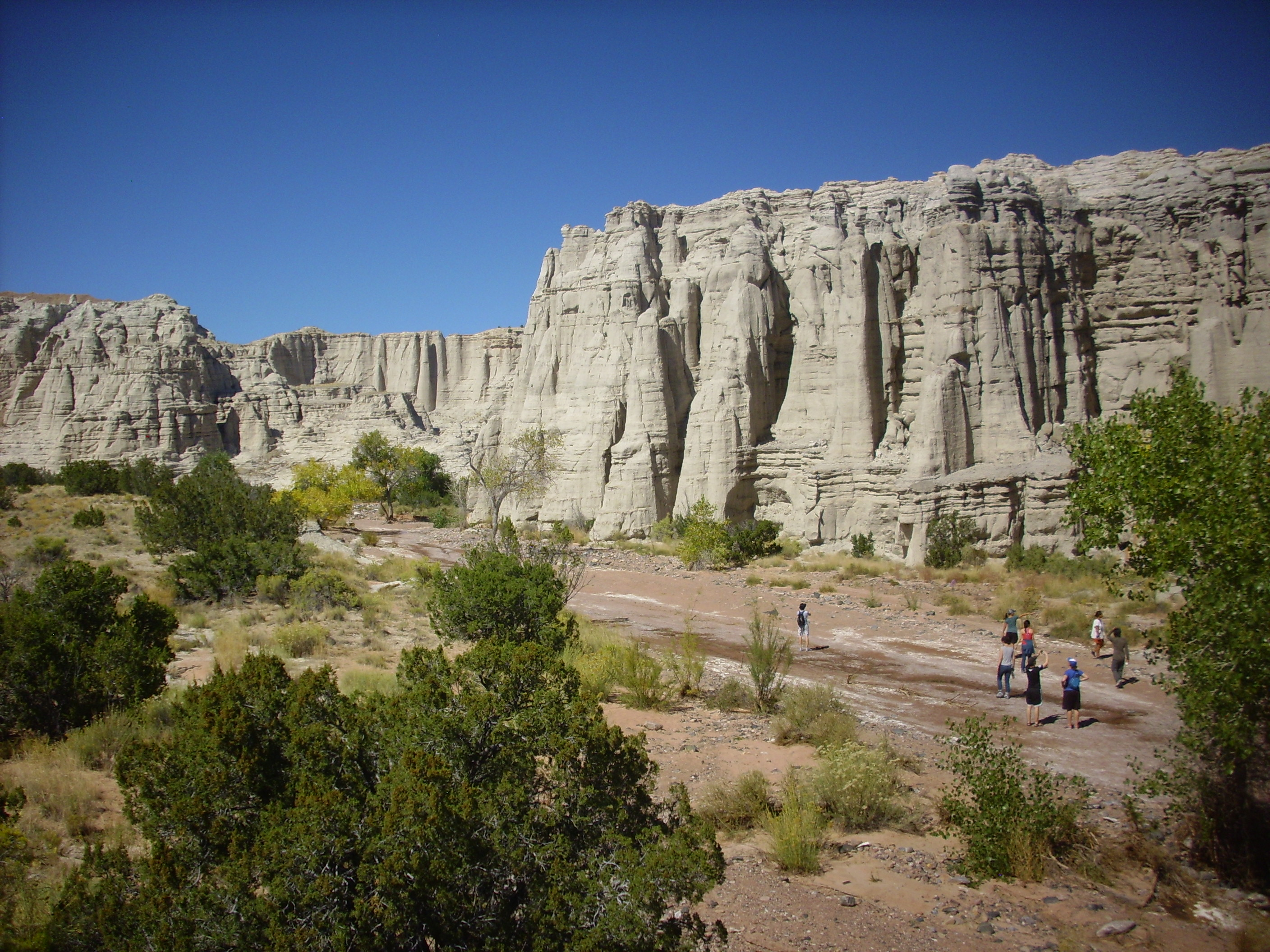 This image shows badlands eroded into the Abiquiu Formation at Plaza Blanca, north of Abiquiu, New Mexico.